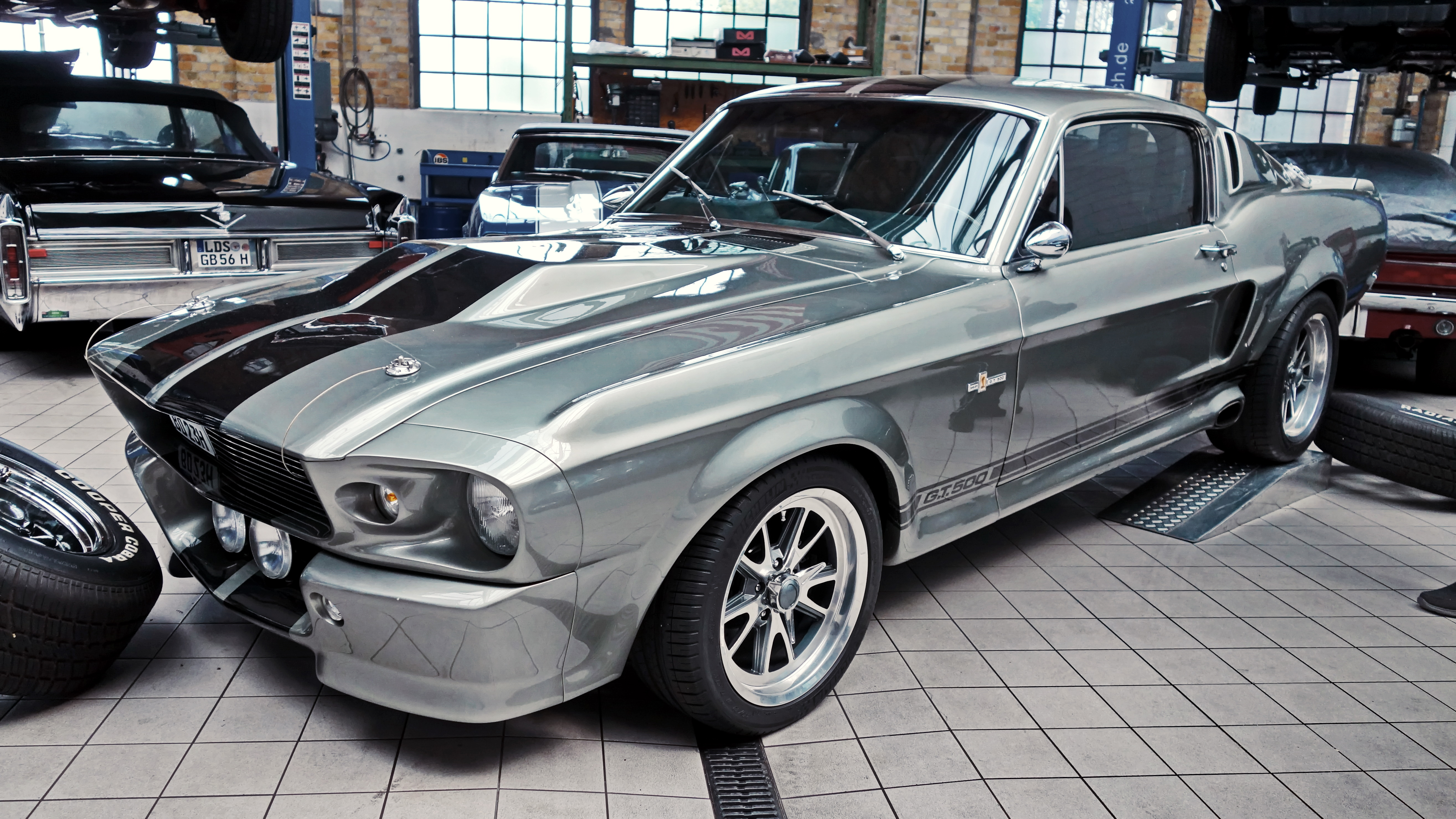 Ford Mustang Shelby GT500 Eleanor